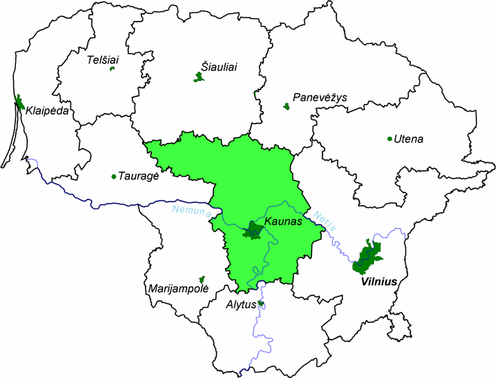 Kaunas County in Lithuania.